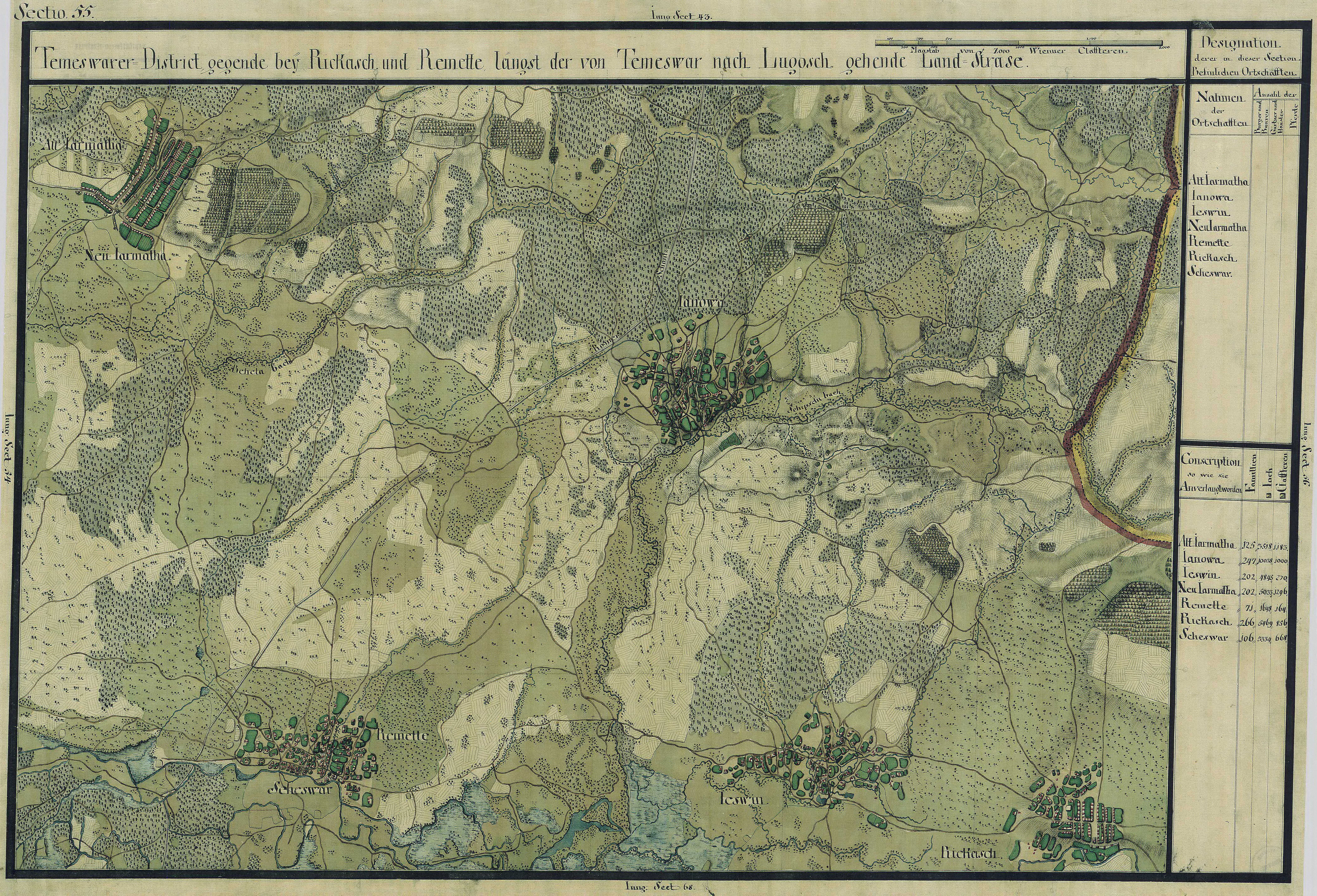 The Banat region in the cadastral maps: Josephinische Landesaufnahme, 1769-72. Josephinische Landaufnahme pg055